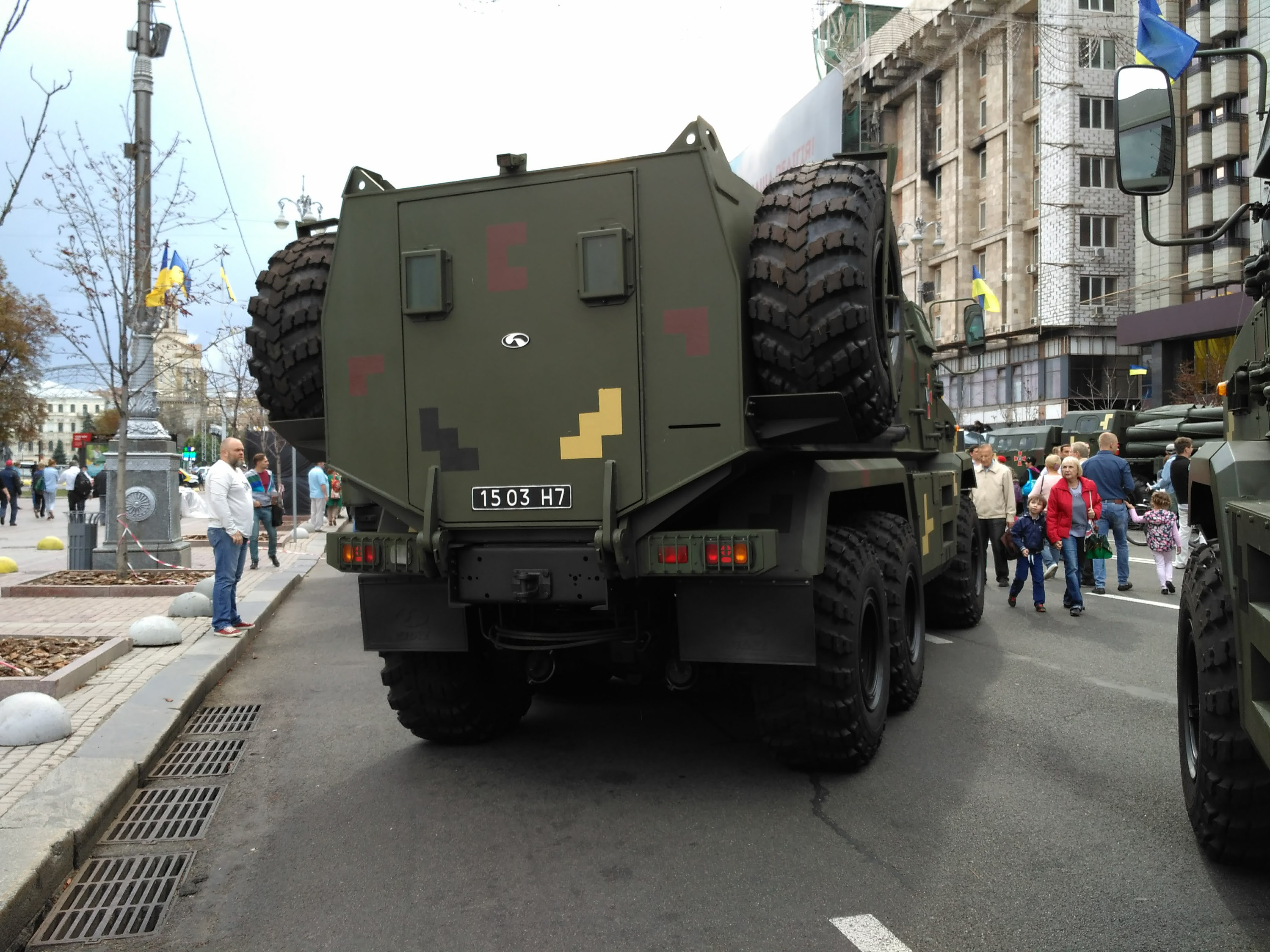 KrAZ Feona vehicle, Kyiv 2017